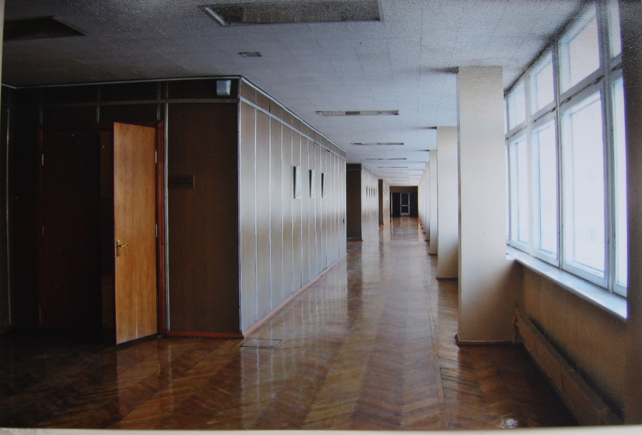 Лекционный залы института